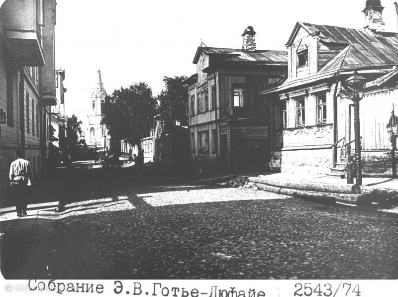 7th Rostovsky lane (Moscow 1913)